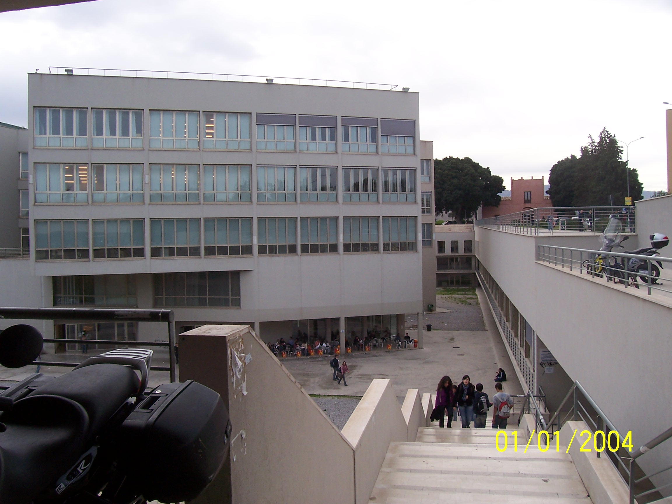 Faculty of Architecture, Palermo, Sicily